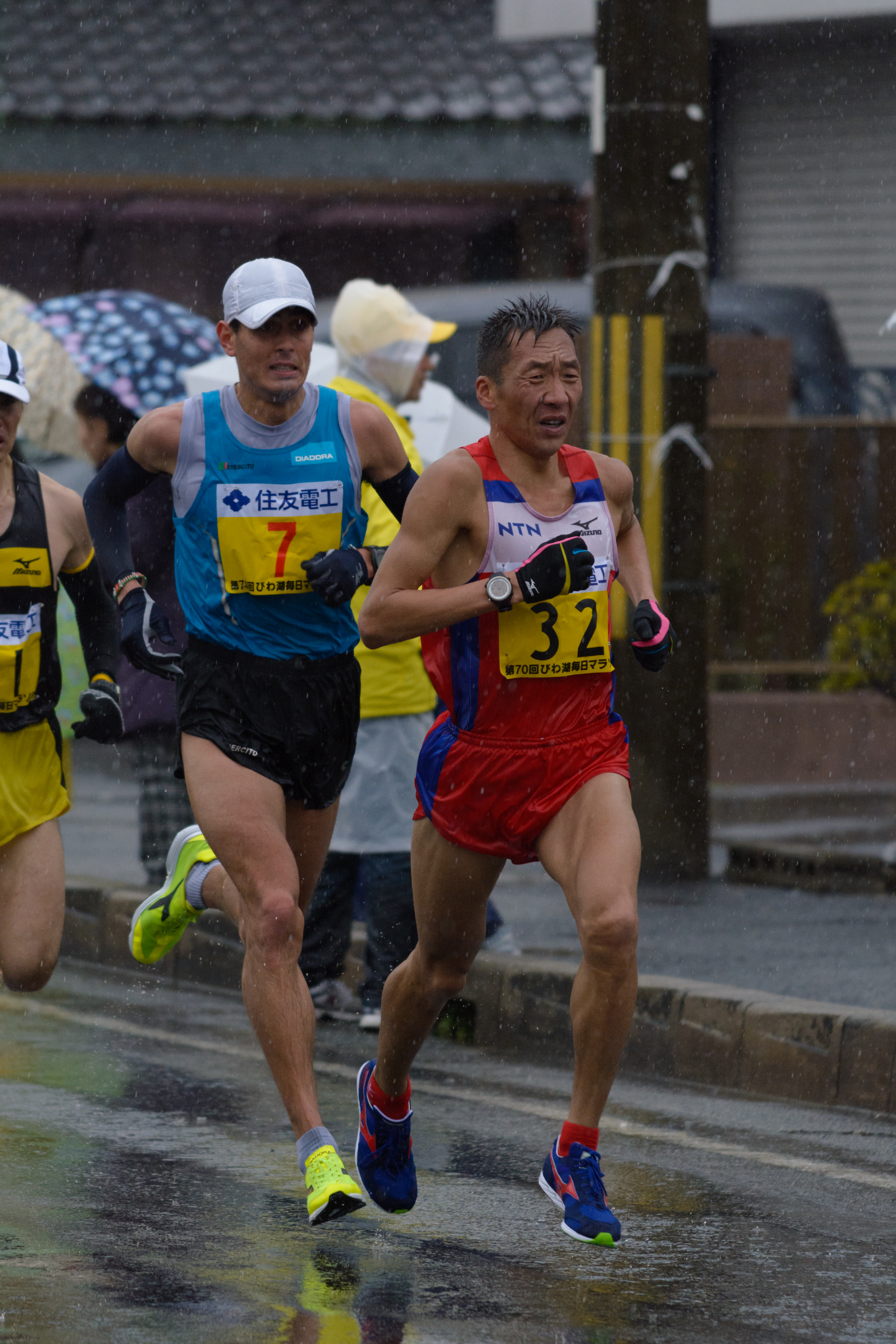 Ser-Od Bat-Ochir (#32) and Daniele Meucci (#7) at the 2015 Lake Biwa Marathon.